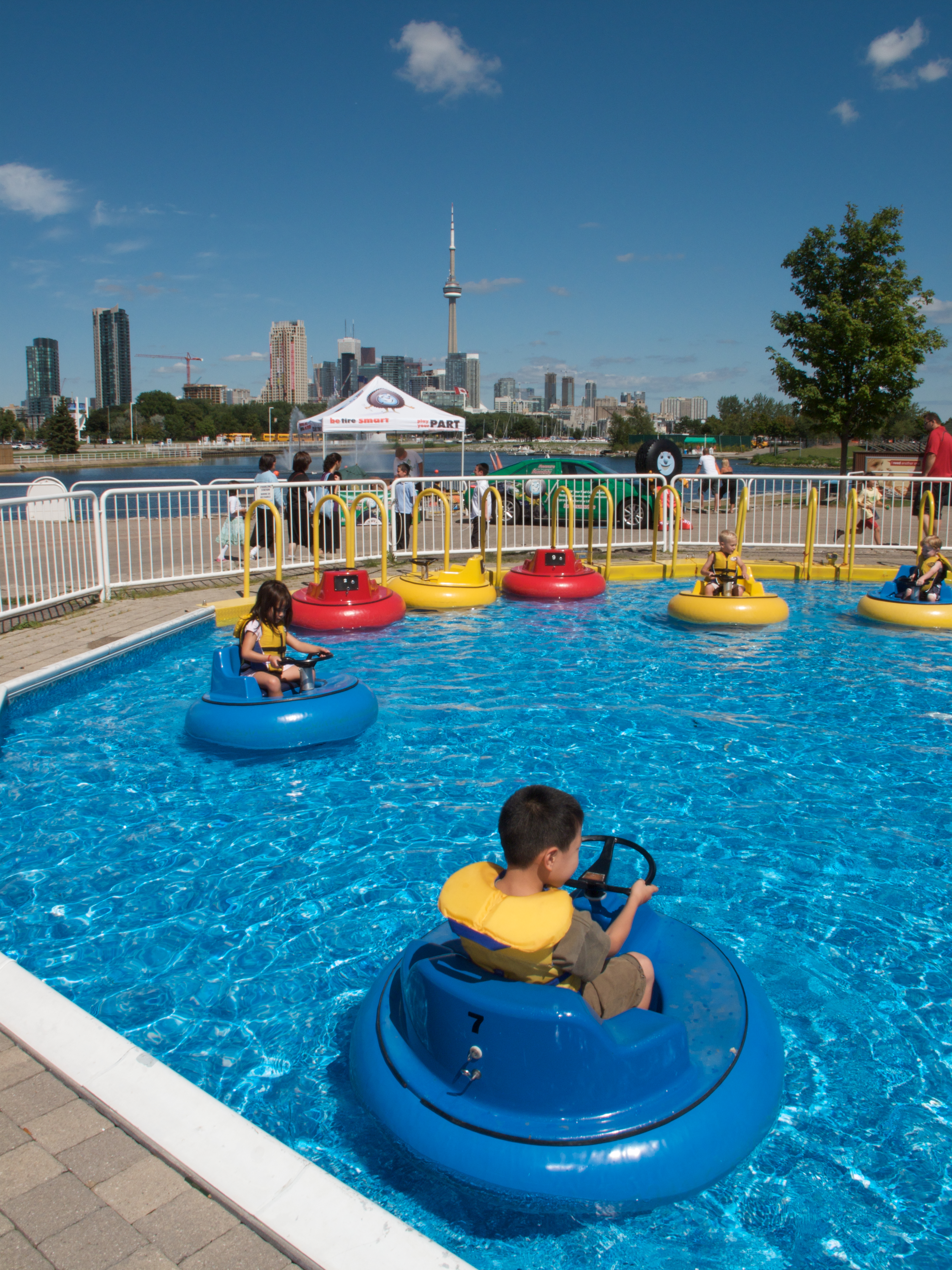 Mini bumper boats at the Ontario Place theme park.